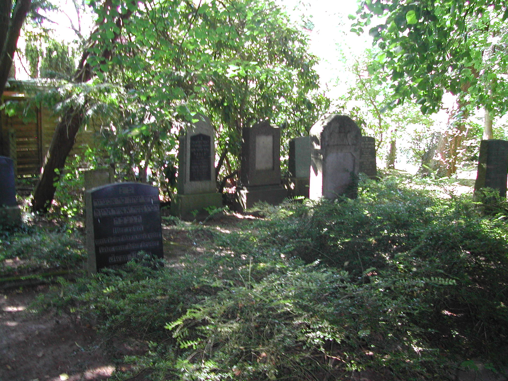 The new Jewish cemetery in Auricher Straße, Wittmund.